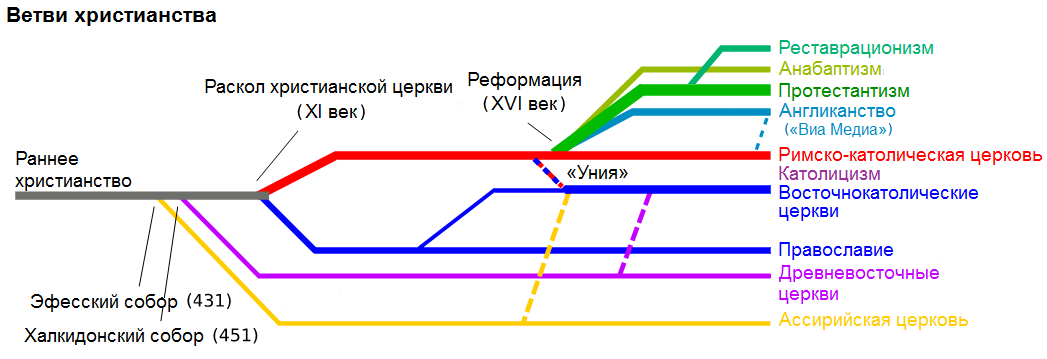 Map showing the historical development of the branches of Christianity in Russian.